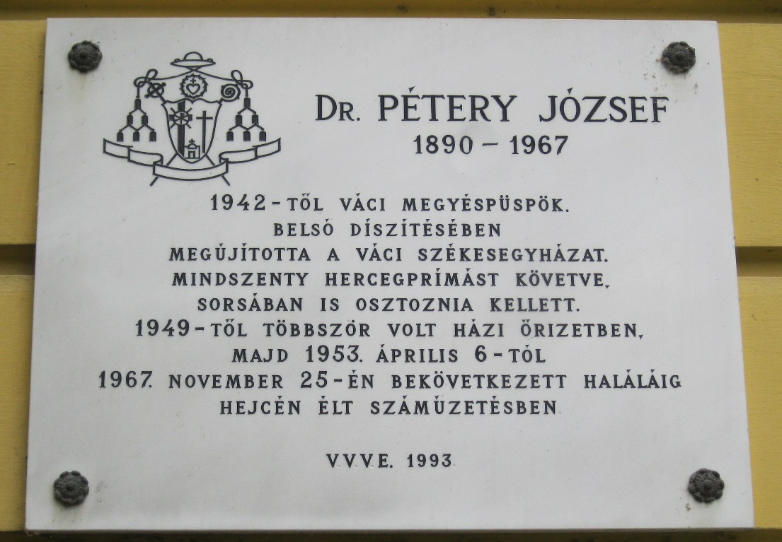 József Pétery commemorative plaque in Vác. Konstantin Square No 2.